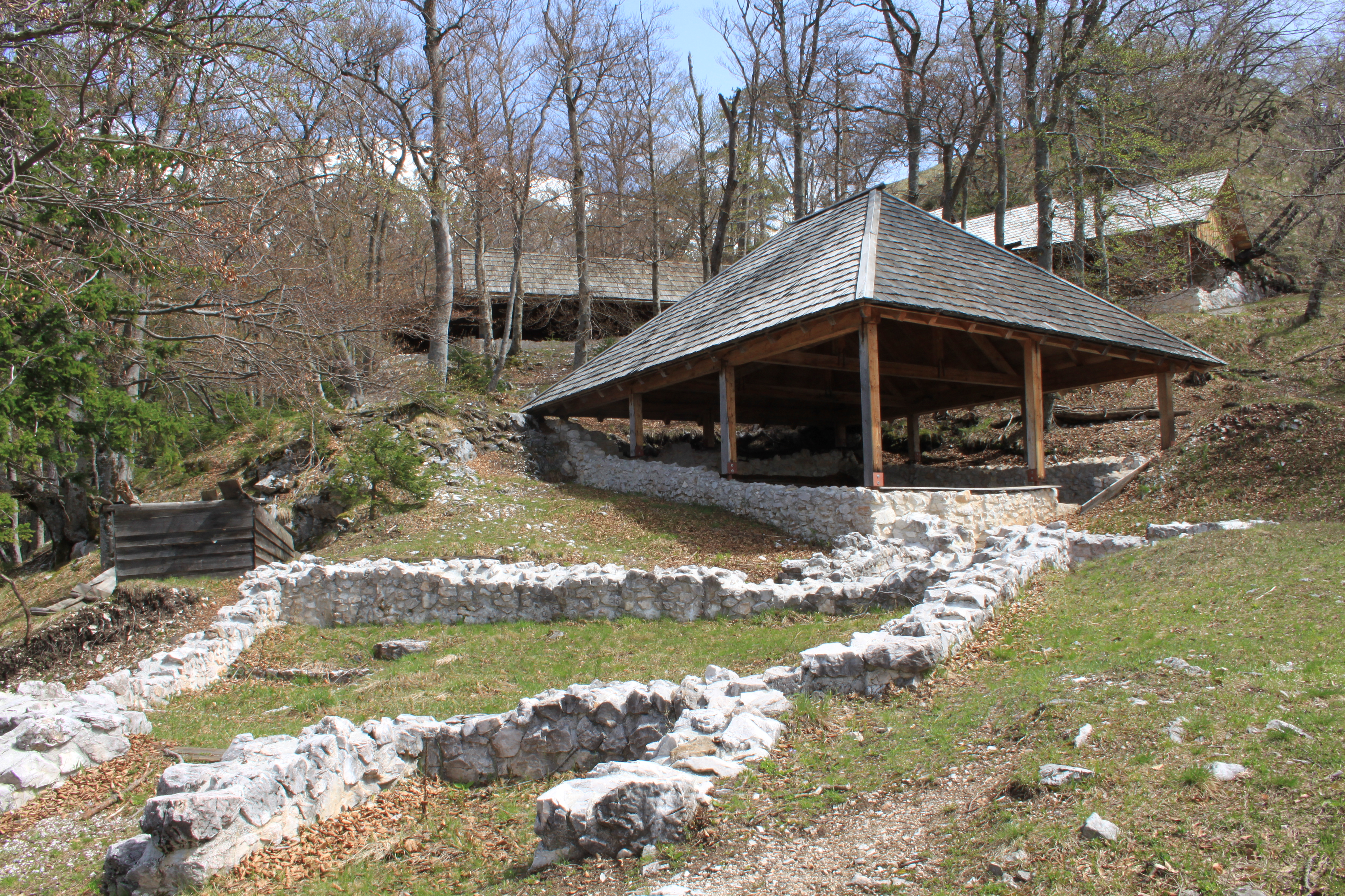 Ajdna, archeological site above Sava Dolinka valley, Upper Carniola region, Slovenia.